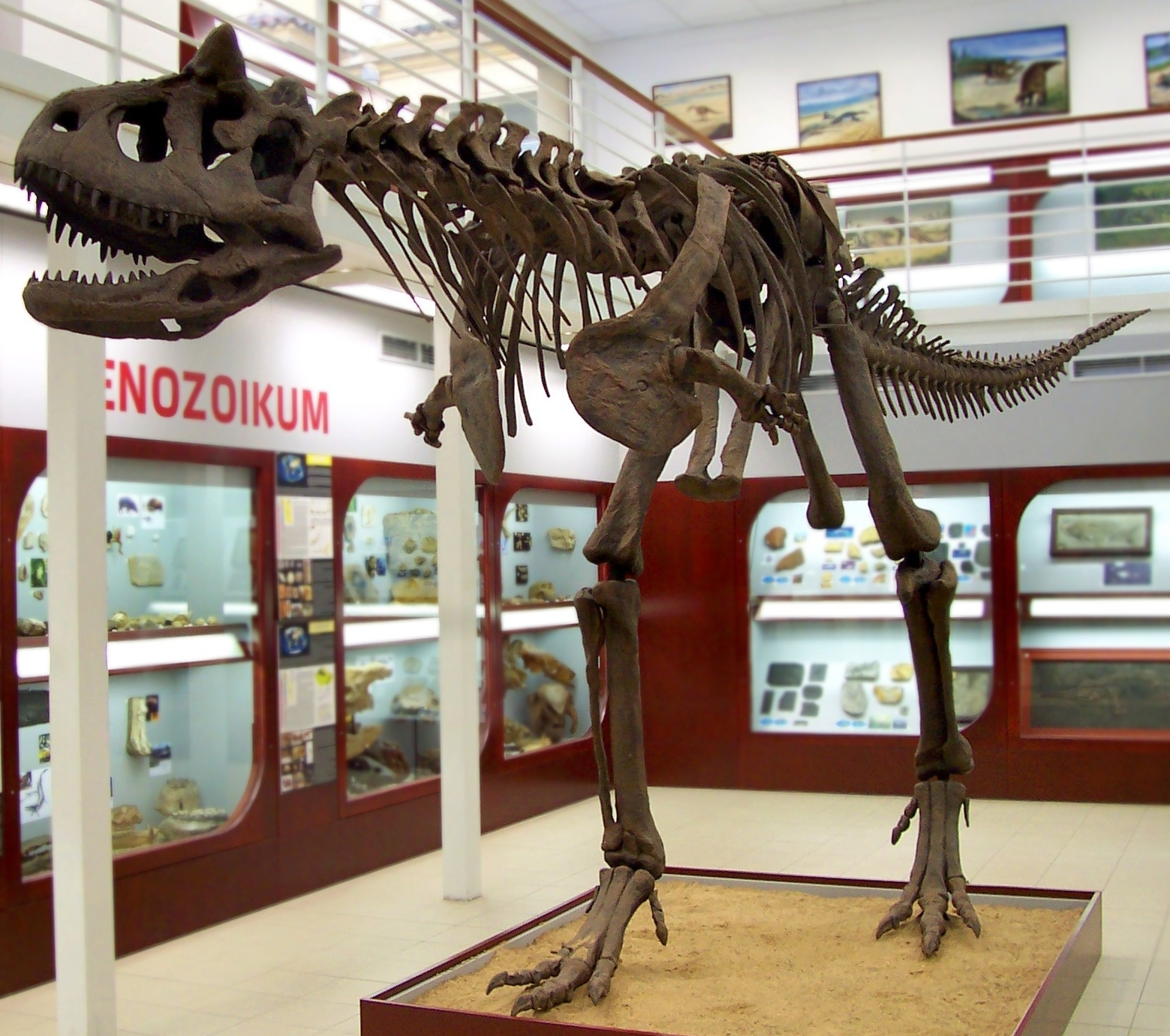 Carnotaurus in Chlupáč museum in Prague